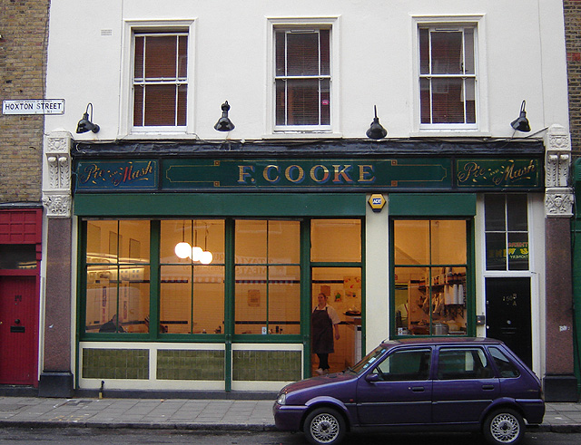 F. Cooke's Pie and Mash Shop, Hoxton Street, Hoxton, Hackney, London.